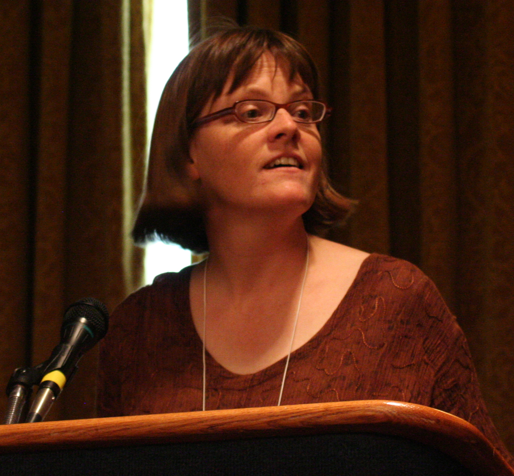 American solar physicist Sarah E. Gibson at SPD/Marshall Space Flight Center meeting in 2009.